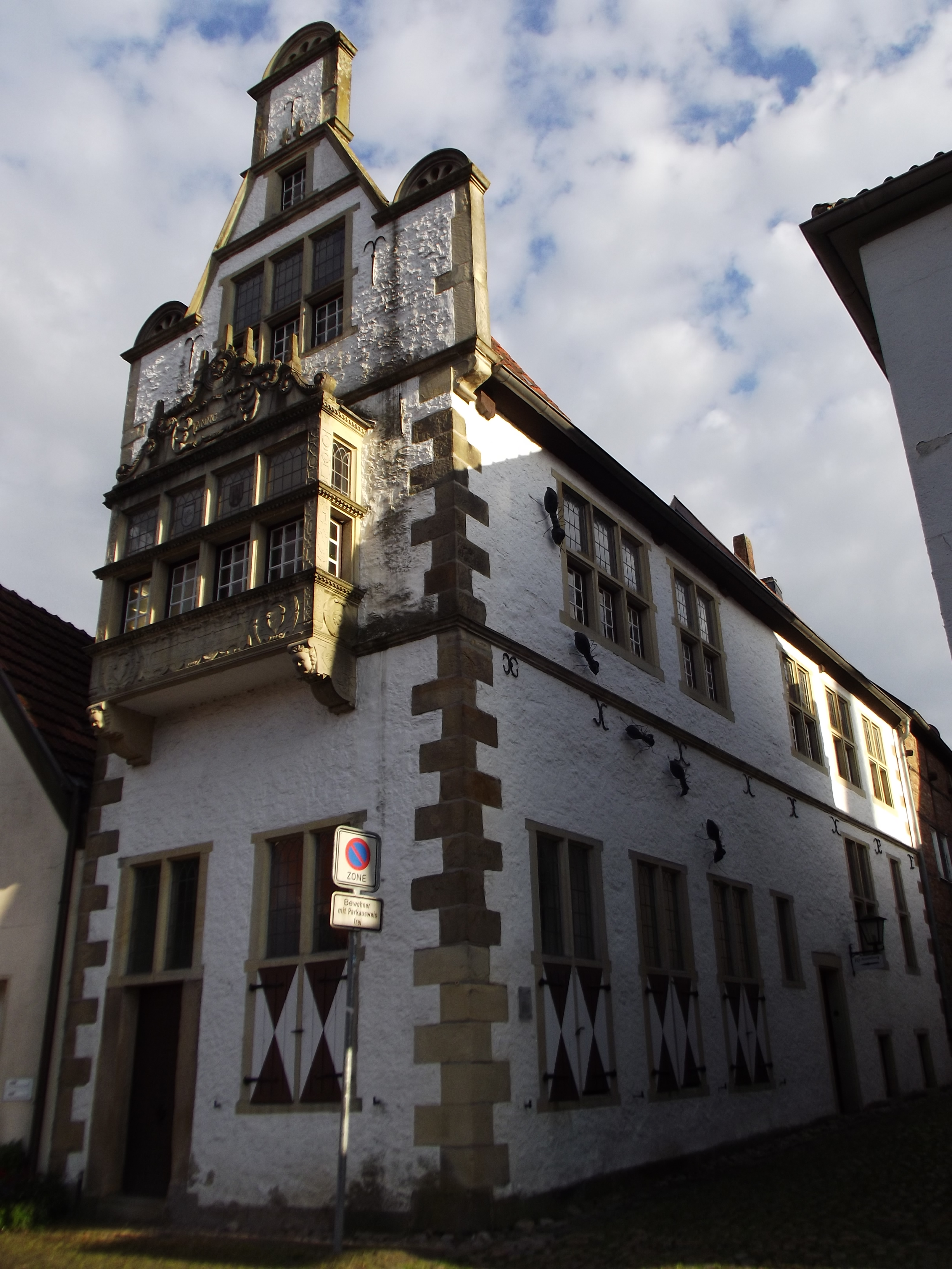 A historical building mentioned in the English article on Steinfurt